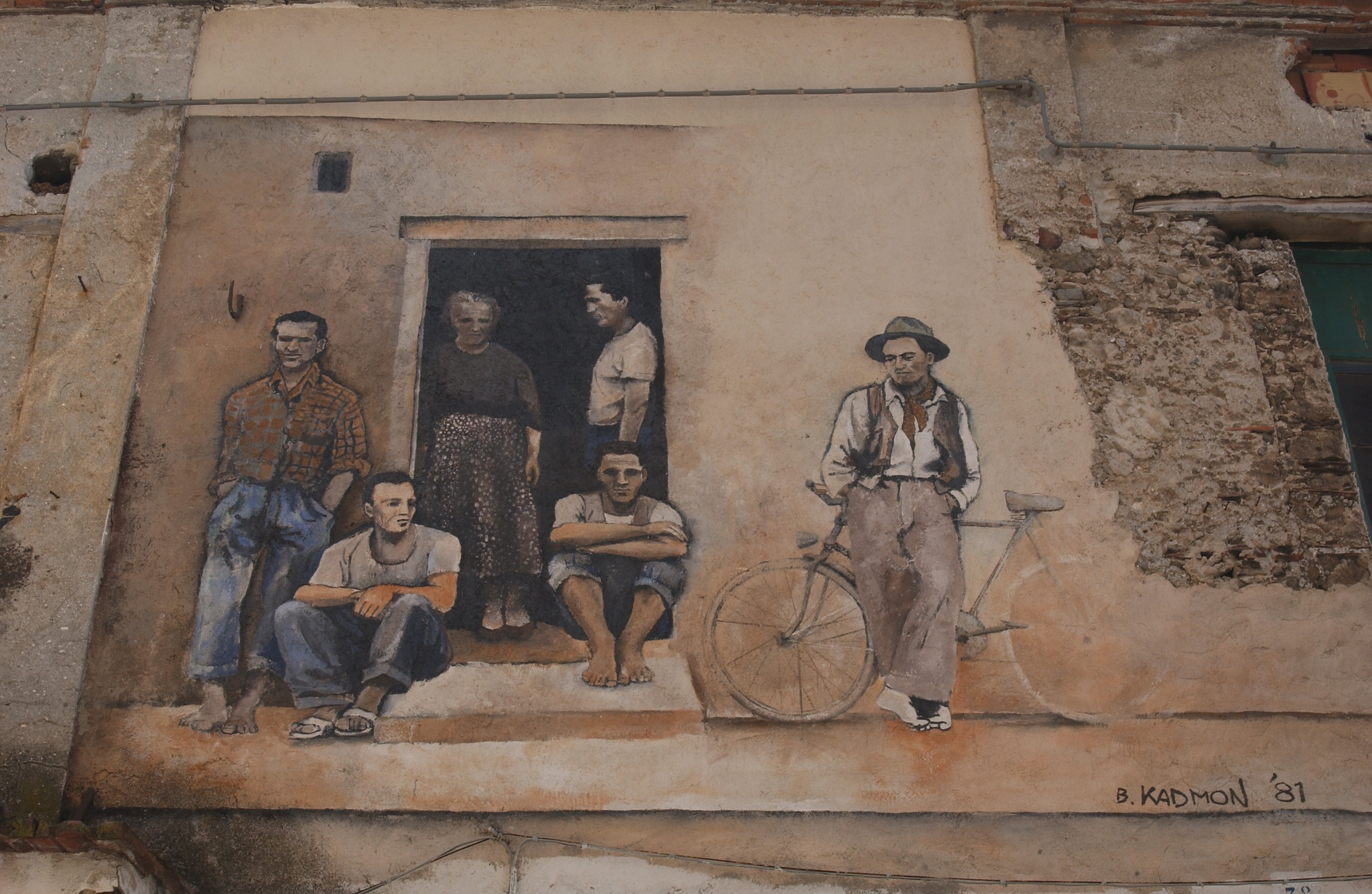 mural painting. Diamante, Calabria, Italy.